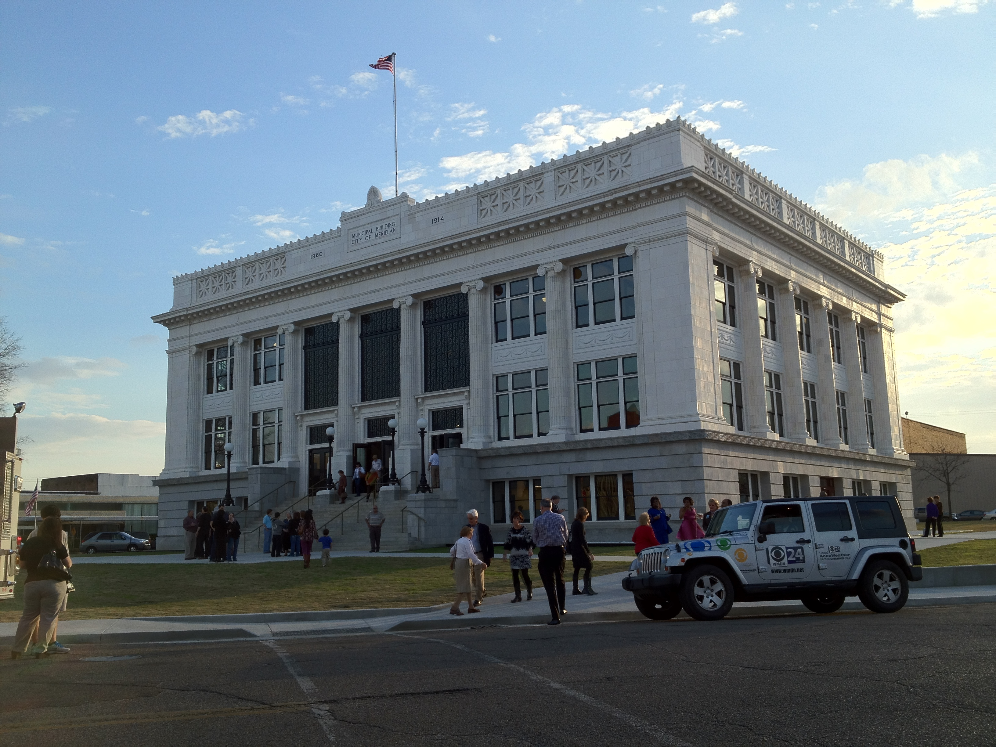 Meridian City Hall in Meridian, Mississippi during an open house after its post-restoration dedication on January 31, 2012.